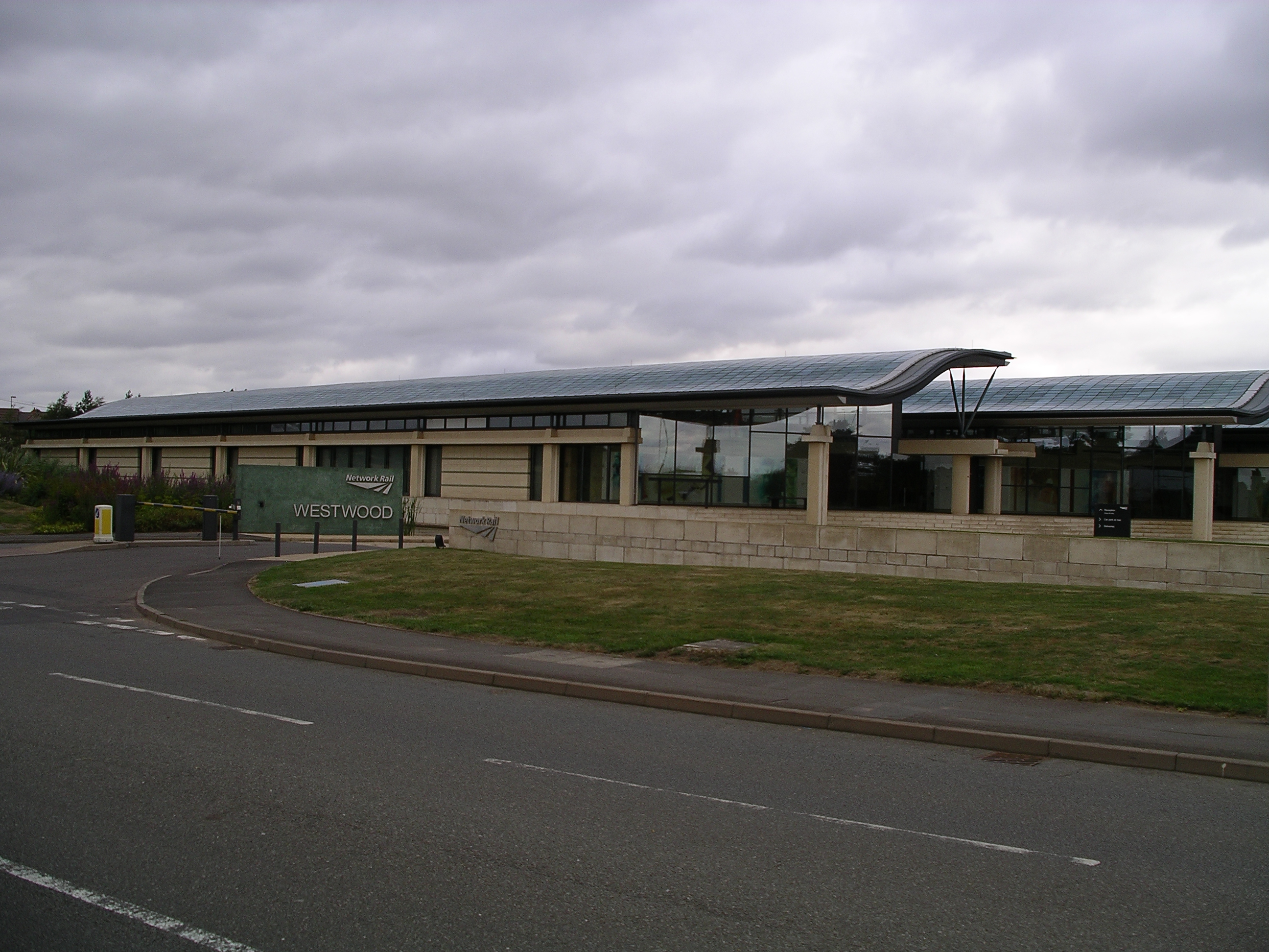 Photo taken by me of the Network Rail buildings, Coventry, England in July 2006. It was rather a cloudy day.